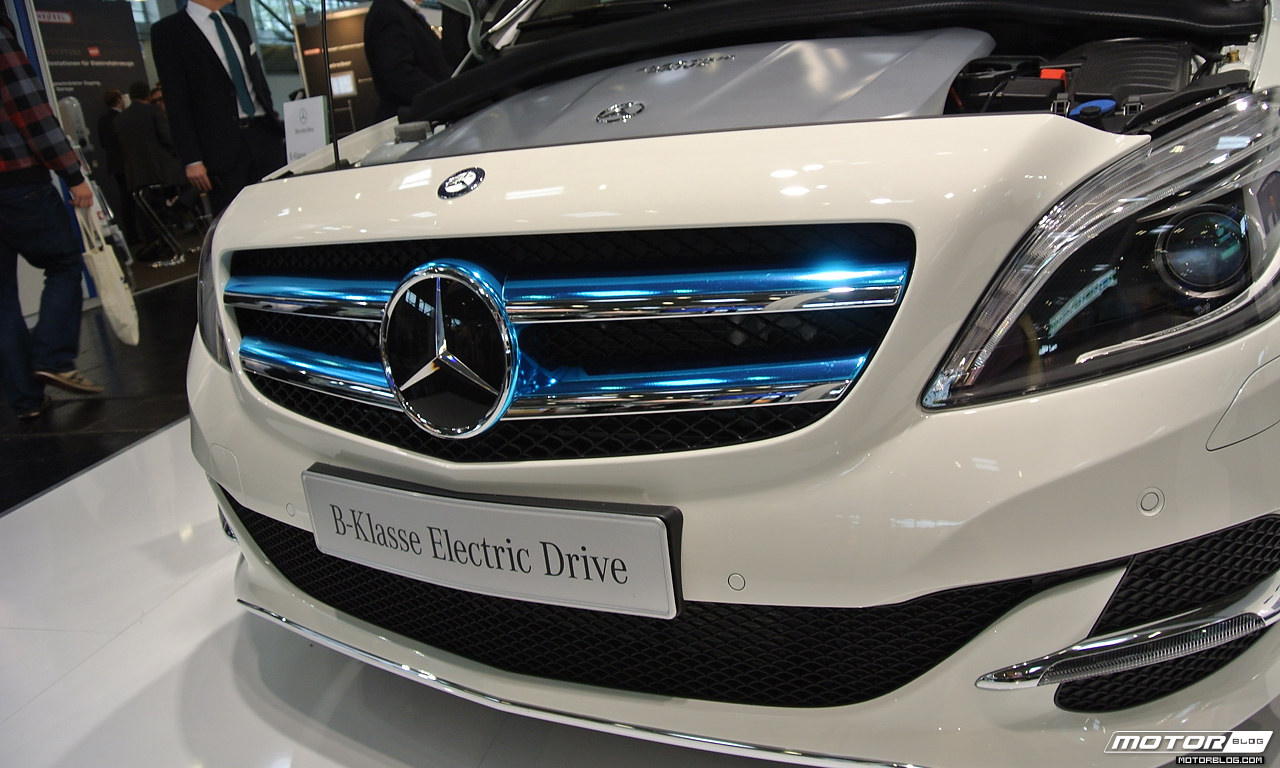 eCarTec Munich 2013: Mercedes-Benz B-class Electric Drive